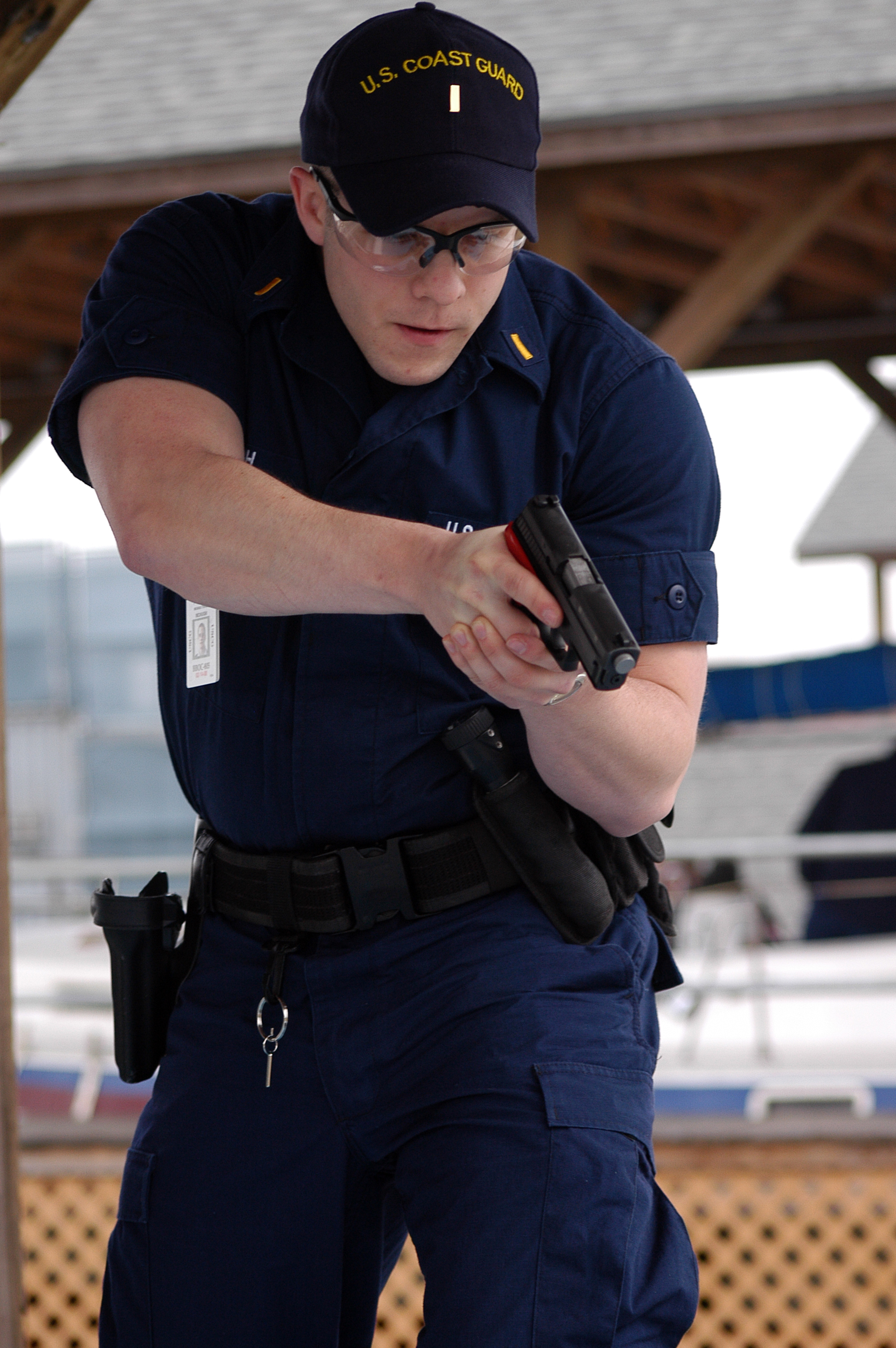 CHARLESTON, S.C. - A student at the Coast Guard's Maritime Law Enforcement Academy draws his weapon during a simulated boarding after a role player brandished a weapon.